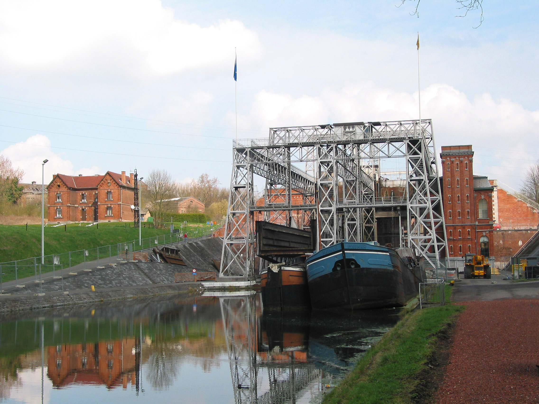 Houdeng-Goegnies (Belgium), the ship elevator N° 1 on the "Canal du Centre" and the employee house. Walon: Oudin-Gôgnîye, (Bèljike), l'assinseûr a batês N° 1 sul "Canal du Centre" èt l'mojon do préposè.